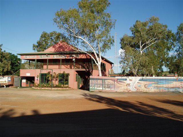 Photo of Whim Creek Pub, circa 2007. Author user:rolinator, photo taken at Whim Creek c. 2007, for free and fair use under GNU Free Documentation License. Readers invited to visit Whim Creek, its a blast!